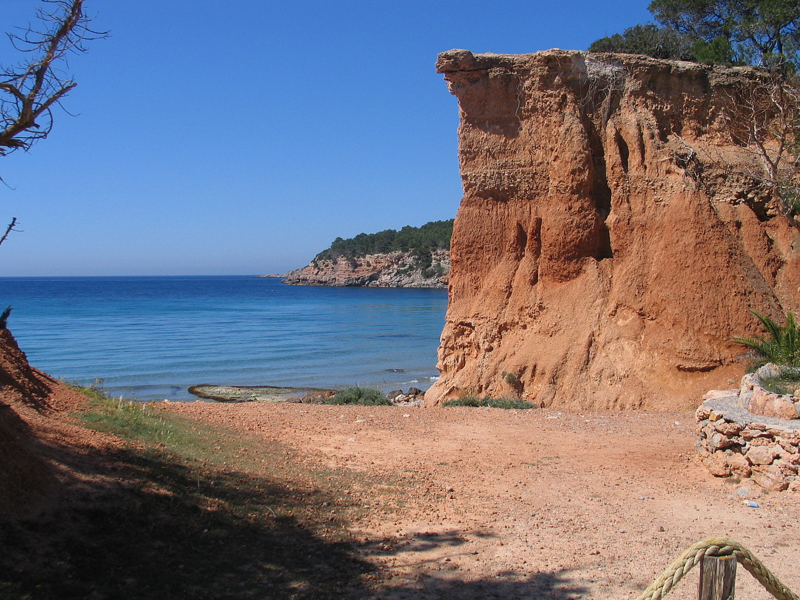 Beach of Es Bol Nou, Ibiza, Spain